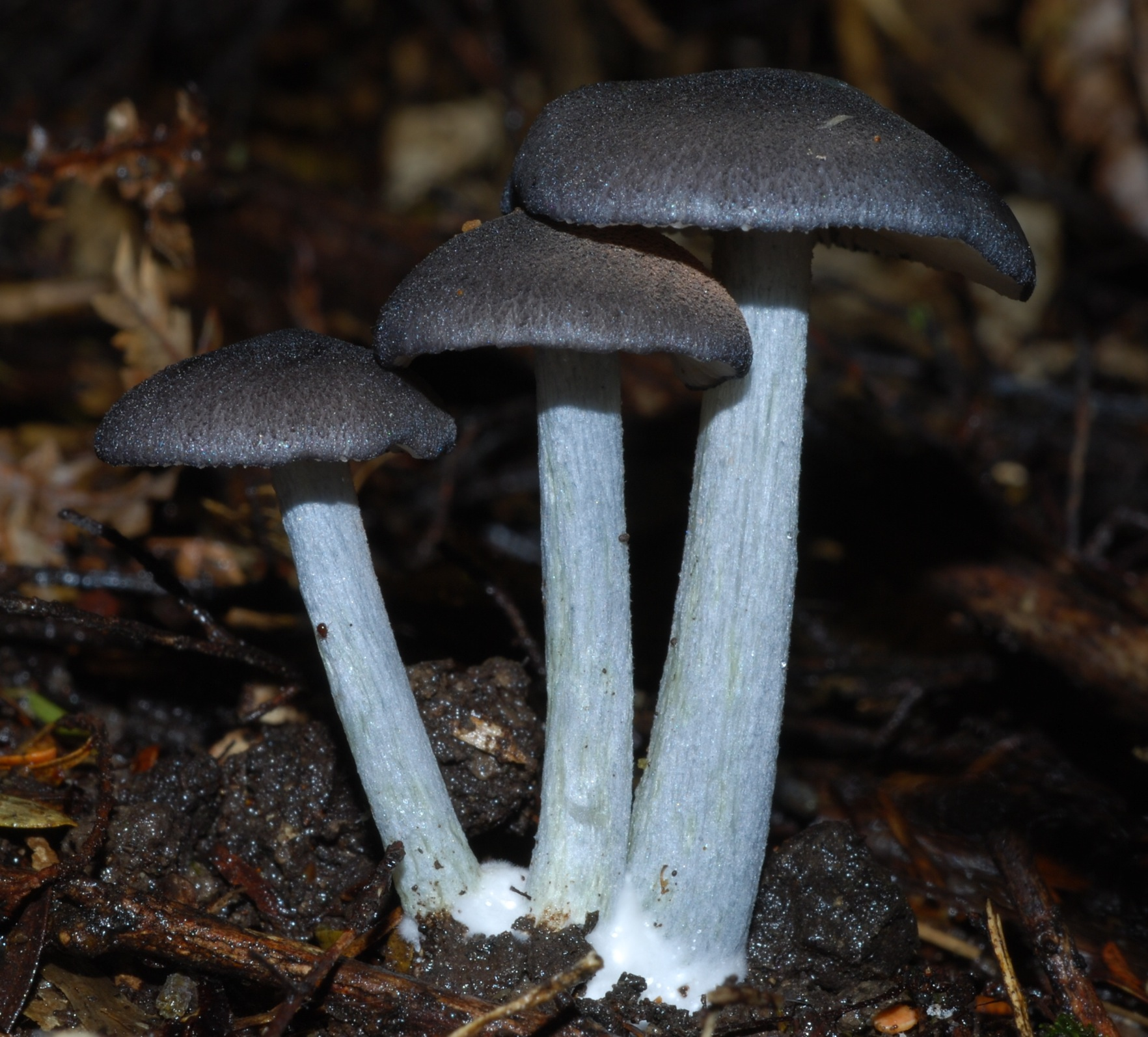 Entoloma haastii (G. Stev.) Location: Auckland, New Zealand Notes: Found in leaf litter under very old Leptospermum scoparium in native New Zealand forest.Pileus: 20-50mm in diameter. Hemispheric to plane. Colour silvery blue grey.Stipe: 50-60mm long by 10-15mm in diameter. Colour pale blue.Lamellae: Attachment adnate. Close to subdistant. Broad. Colour pale pink.